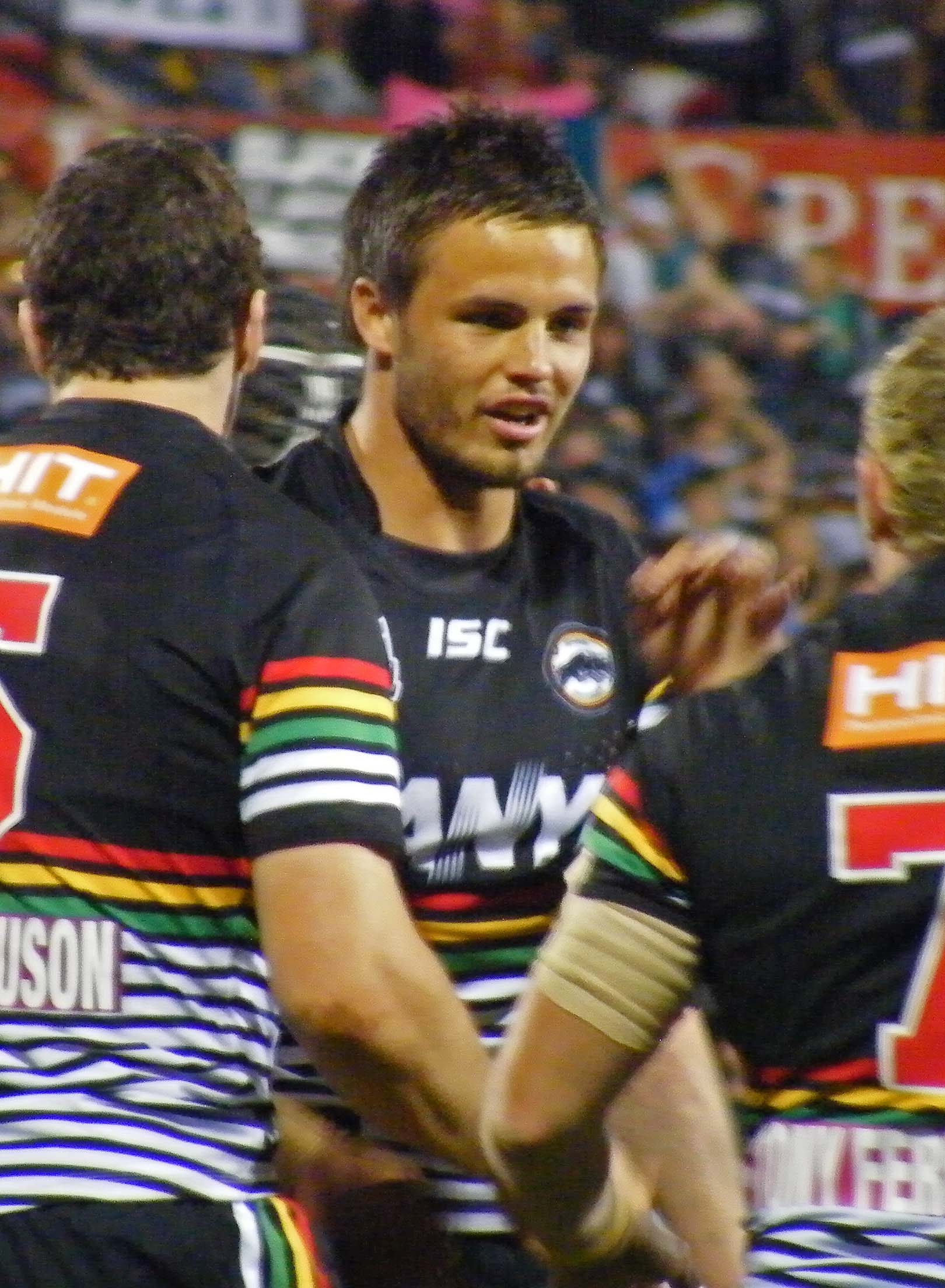 Sandor earl